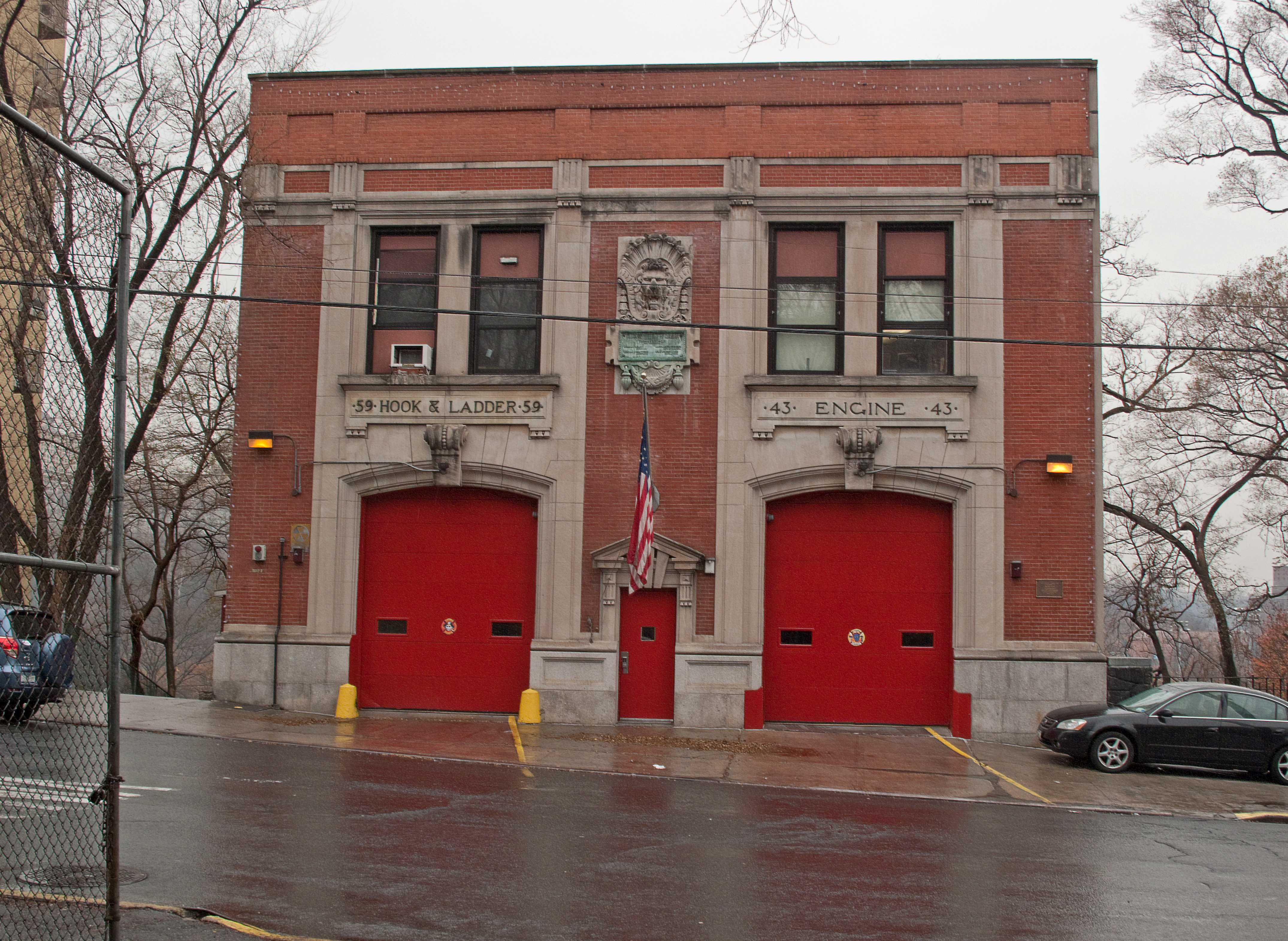 Hook and Ladder Company 59, Engine Company 43, 1901 Sedgwick Avenue, Bronx, New York City.